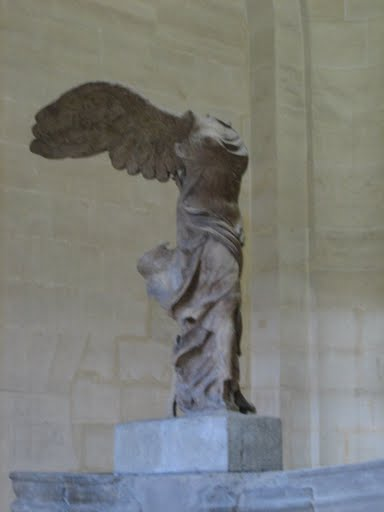 Nike_(mythology).jpg